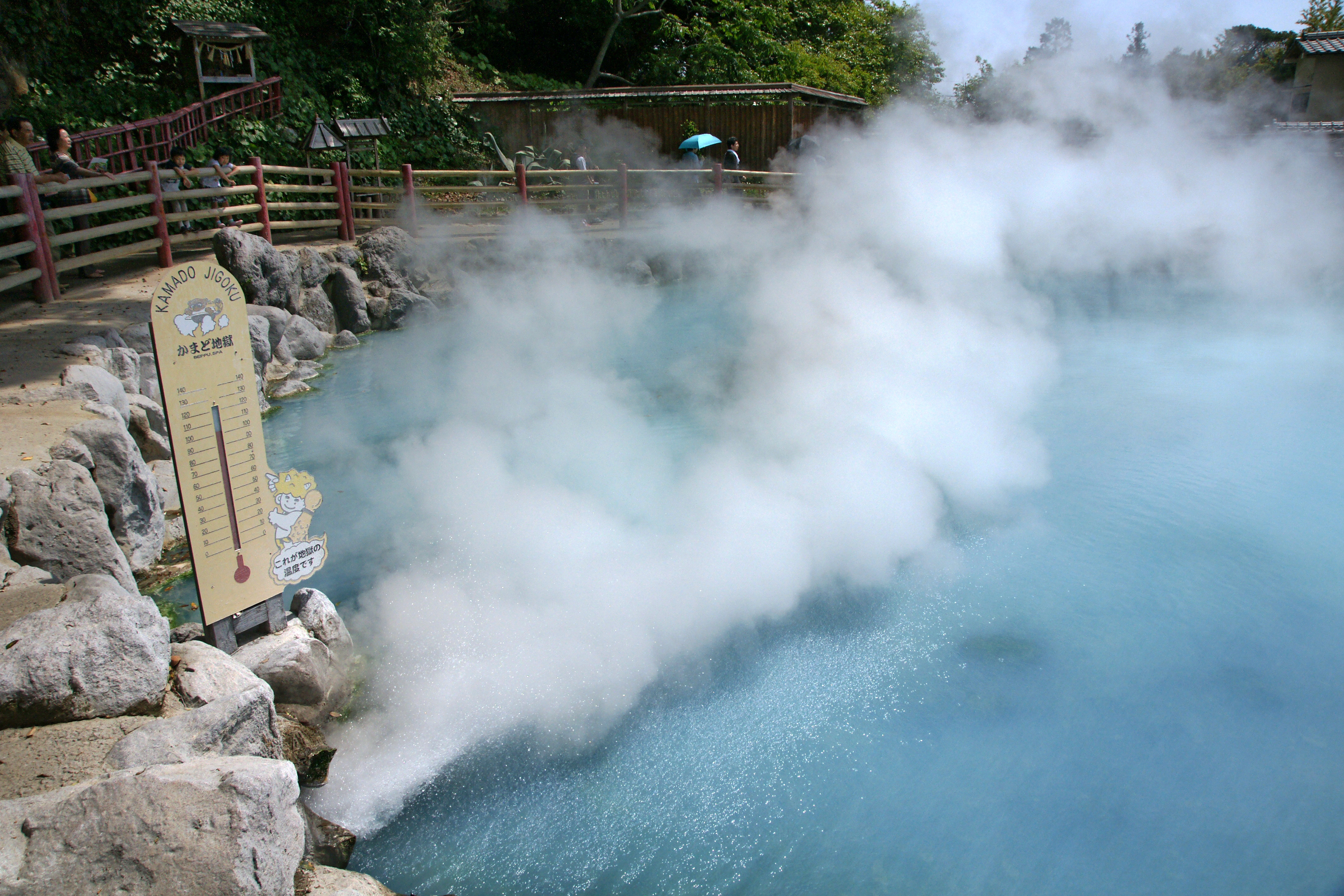 Kamado Jigoku of Beppu Jigokumeguri, Beppu, Oita prefecture, Japan